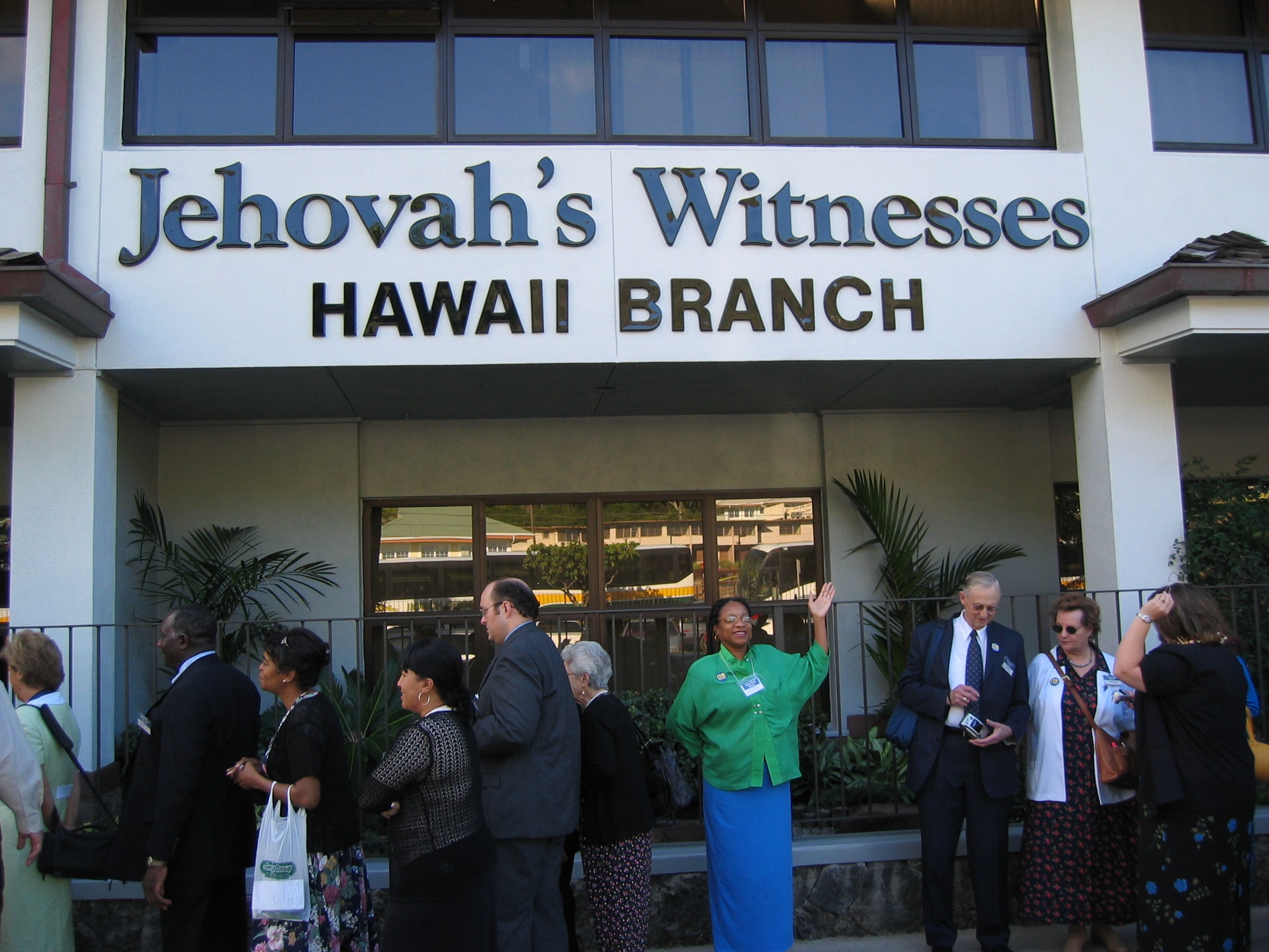 2003 Honolulu International Convention 46